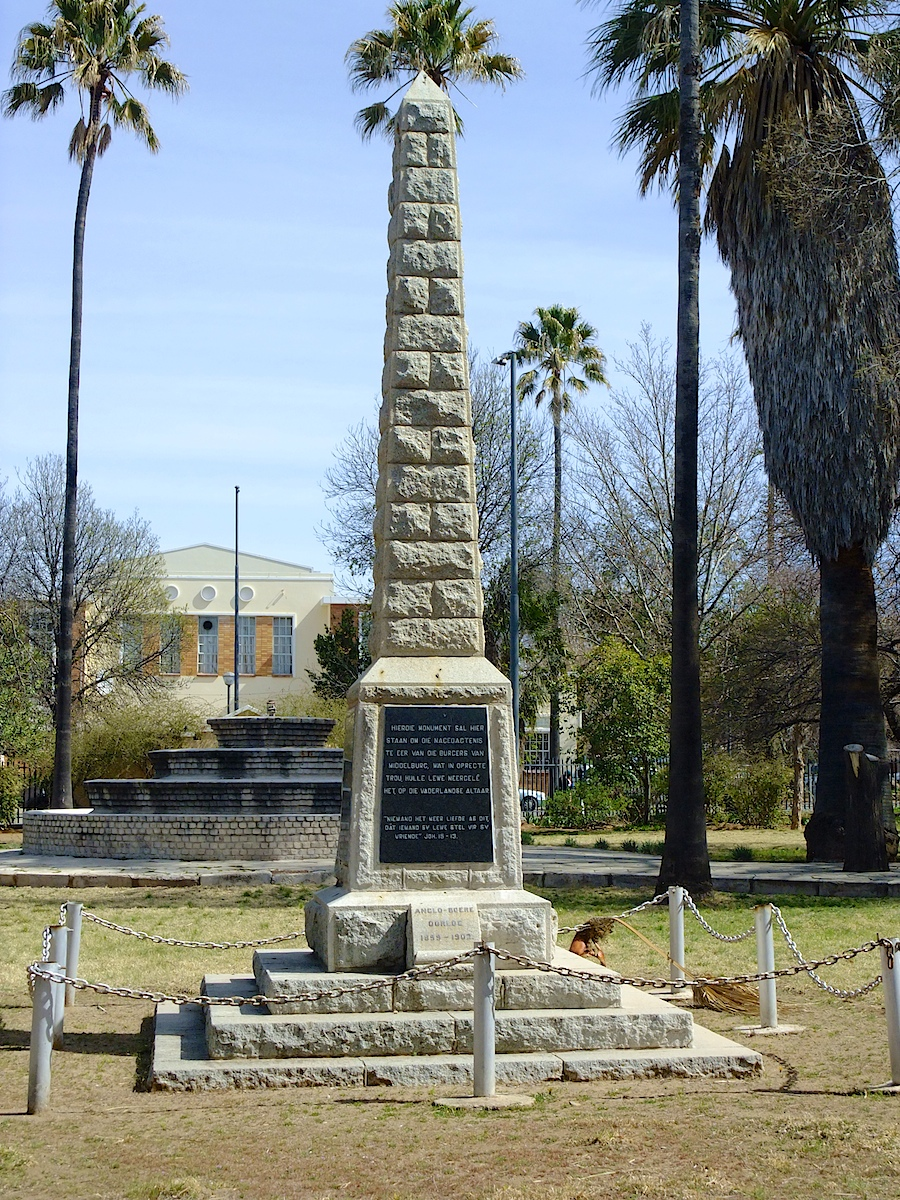 Anglo Boer War Monument Middelburg This media shows a South African Protected Site with SAHRA file reference 0.